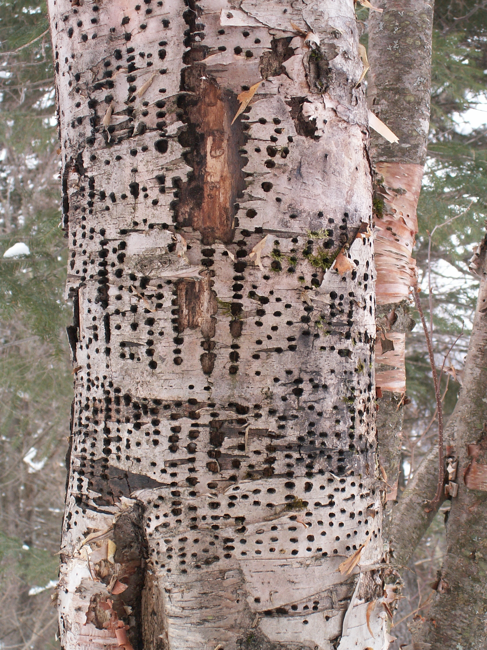 Yellow-bellied Sapsucker (Sphyrapicus varius) holes in a dying White birch (Betula papyrifera), Jacques-Cartier National Park, Quebec, Canada.